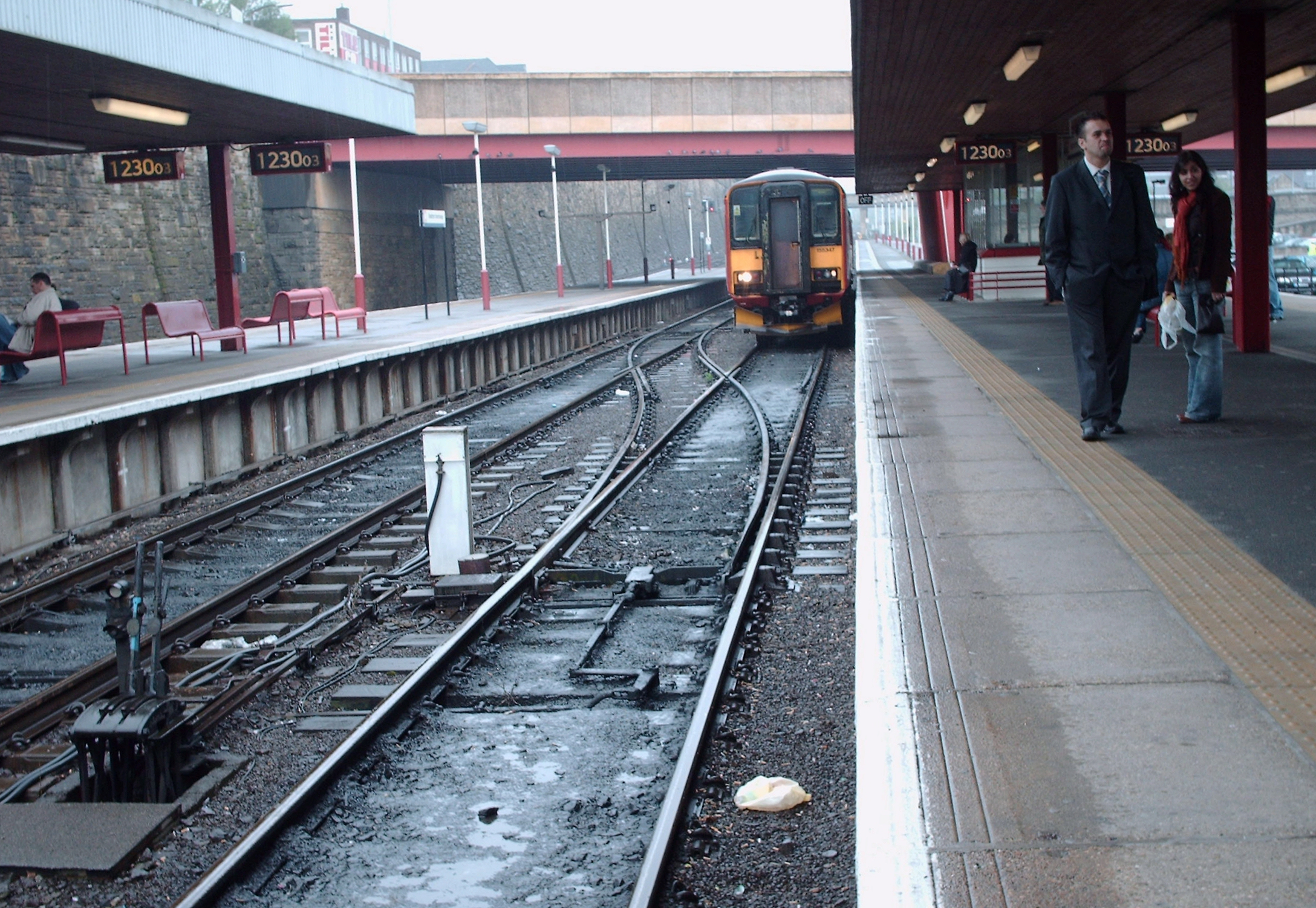 Bradford Interchange railway station